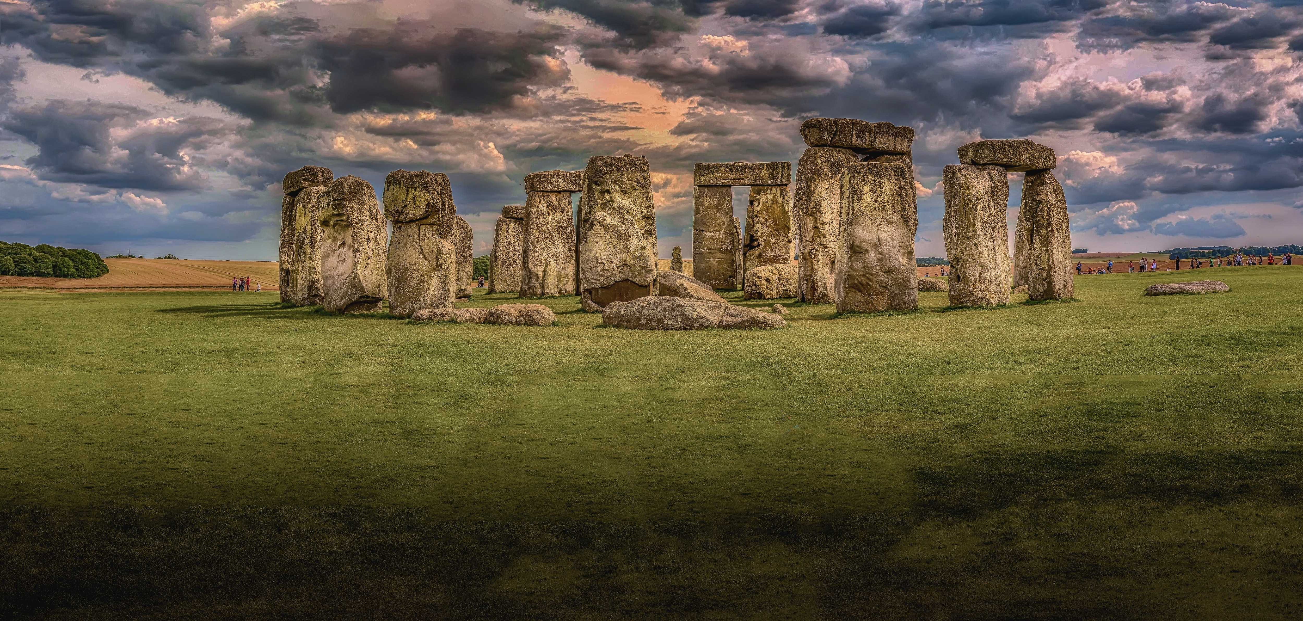 Under Nimbostratus Clouds